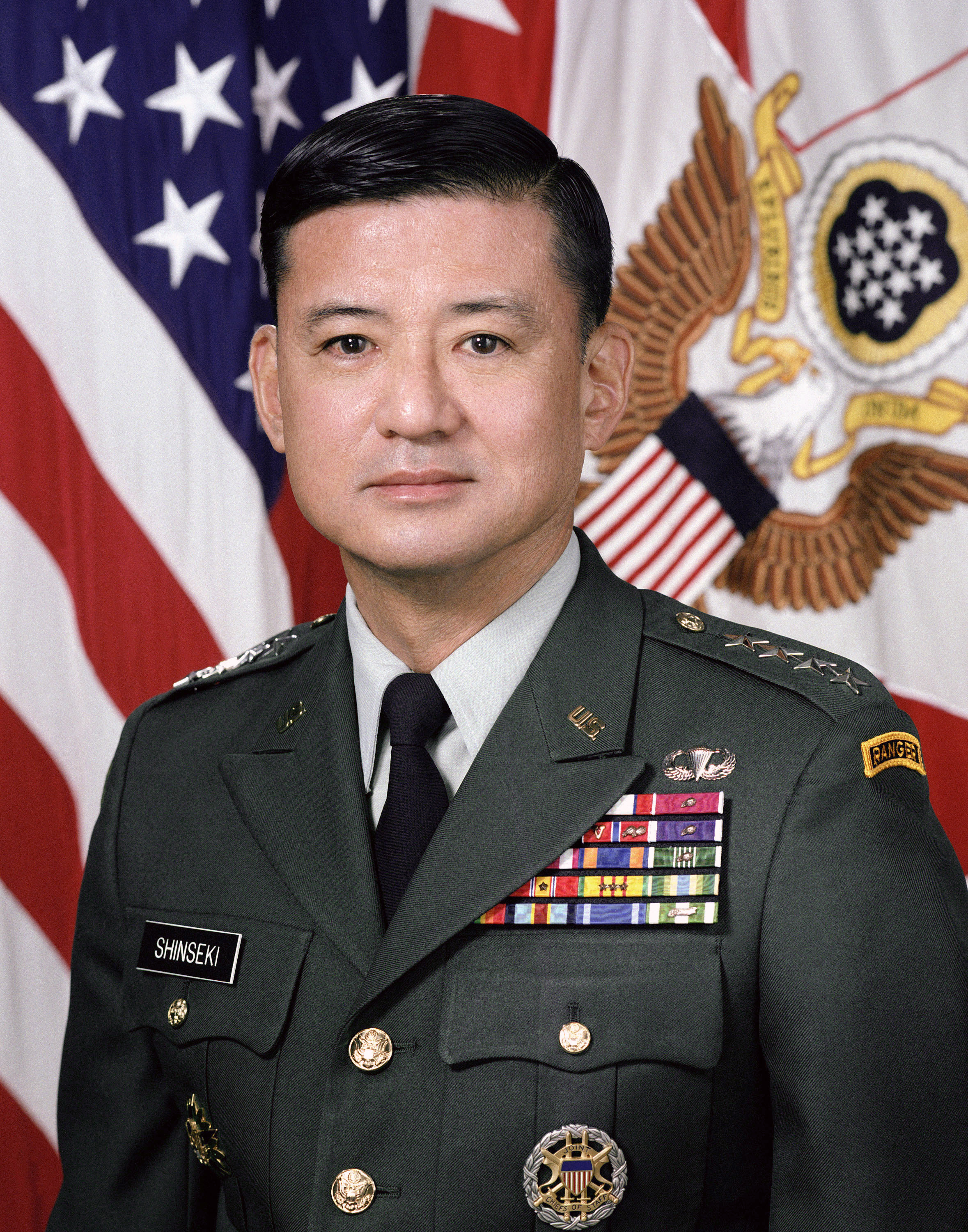 Eric Shinseki Official portrait as Vice Chief of Staff of the Army